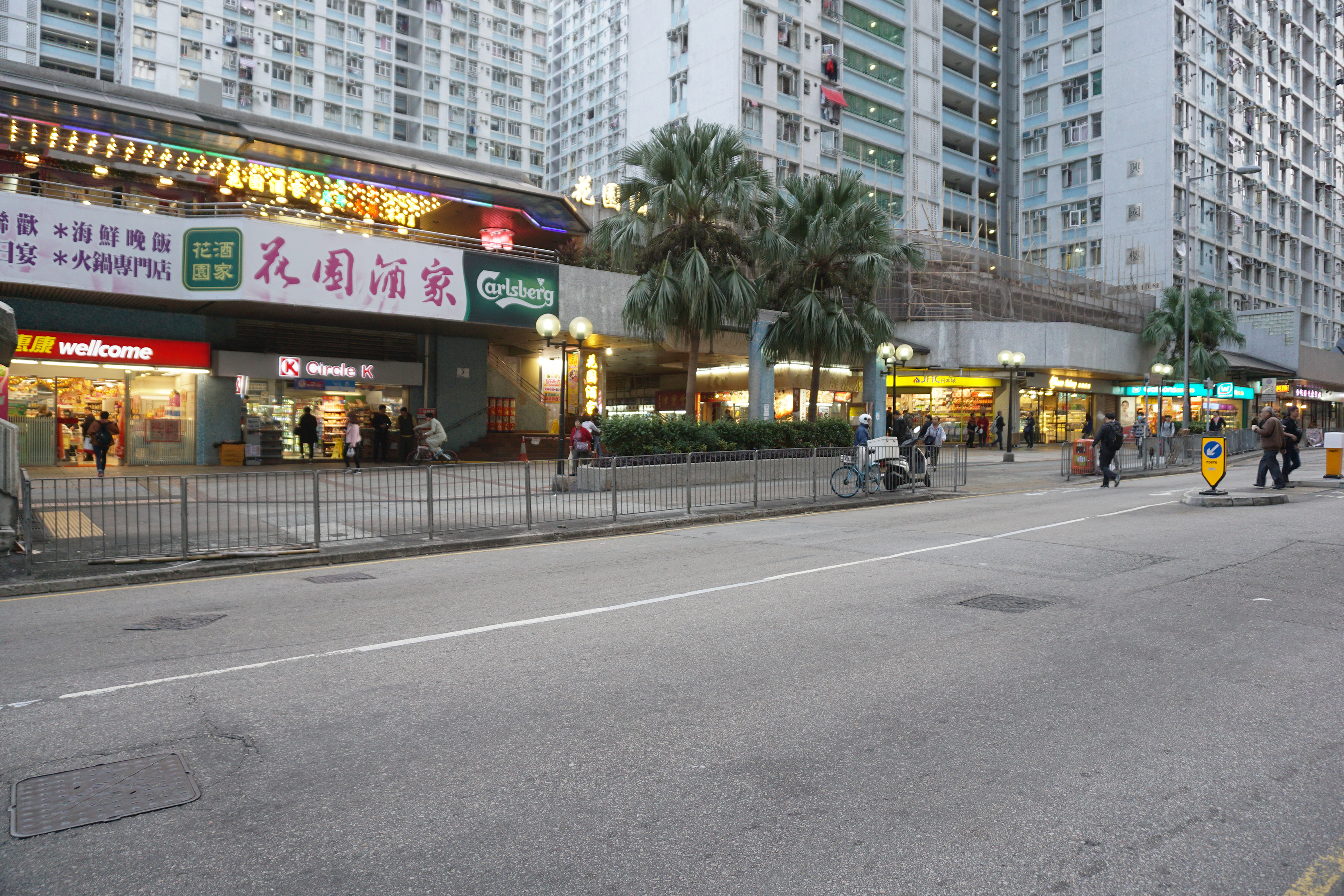 Kwai Hing Shopping Centre in Kwai Chung, Hong Kong.